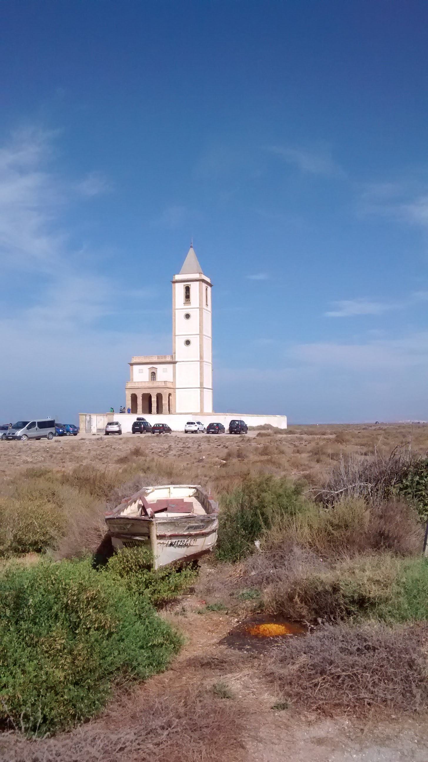 this church was built in 1907 , in Cabo de Gata